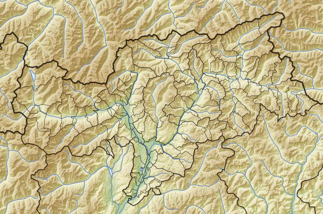 Physical location map of the Province of Bolzano-Bozen, Italy Equirectangular projection, N/S stretching 150 %. Geographic limits of the map: N: 47.15° N S: 46.18° N W: 10.3° E E: 12.5° E